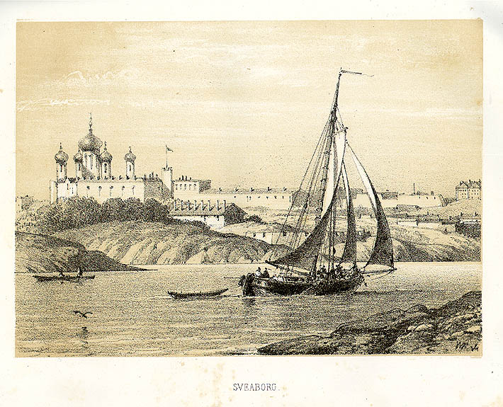 Suomenlinna / Sveaborg